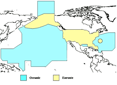 A map of the regions where the United States charges overflight fees. Yellow is where higher "enroute" fees are charged. Blue is where "oceanic" fees are charged. The colored regions of this map correspond to the regions where the US has delegated authority by the ICAO to control air traffic, including over international waters.